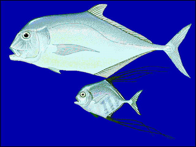 Alectis ciliaris